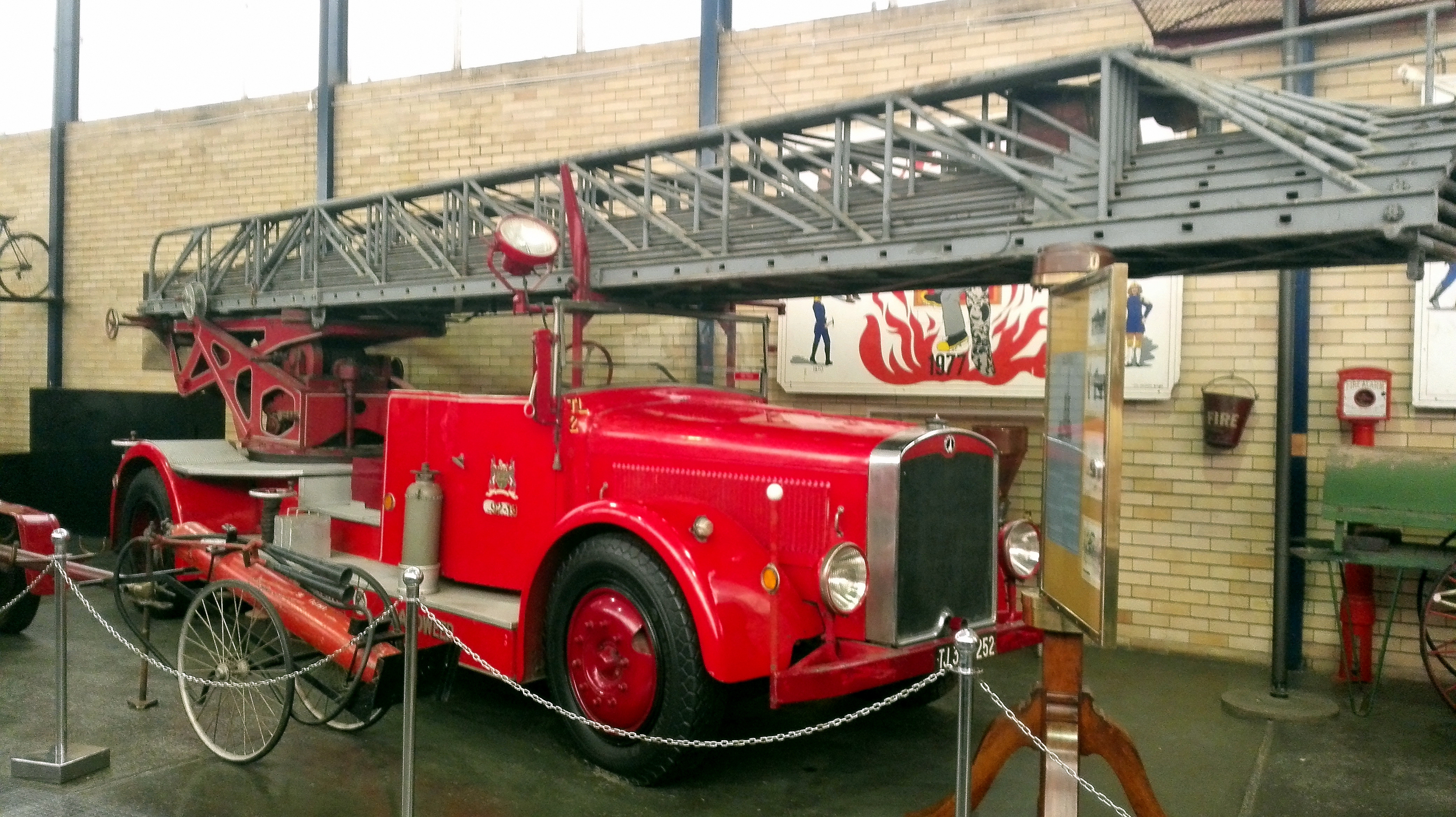 Johannesburg TL2 turntable ladder built 1939 by Magirus/Klöckner-Humbold-Deutz in the James Hall exhibition in Johannesburg. Extension of the ladder: 150 ft